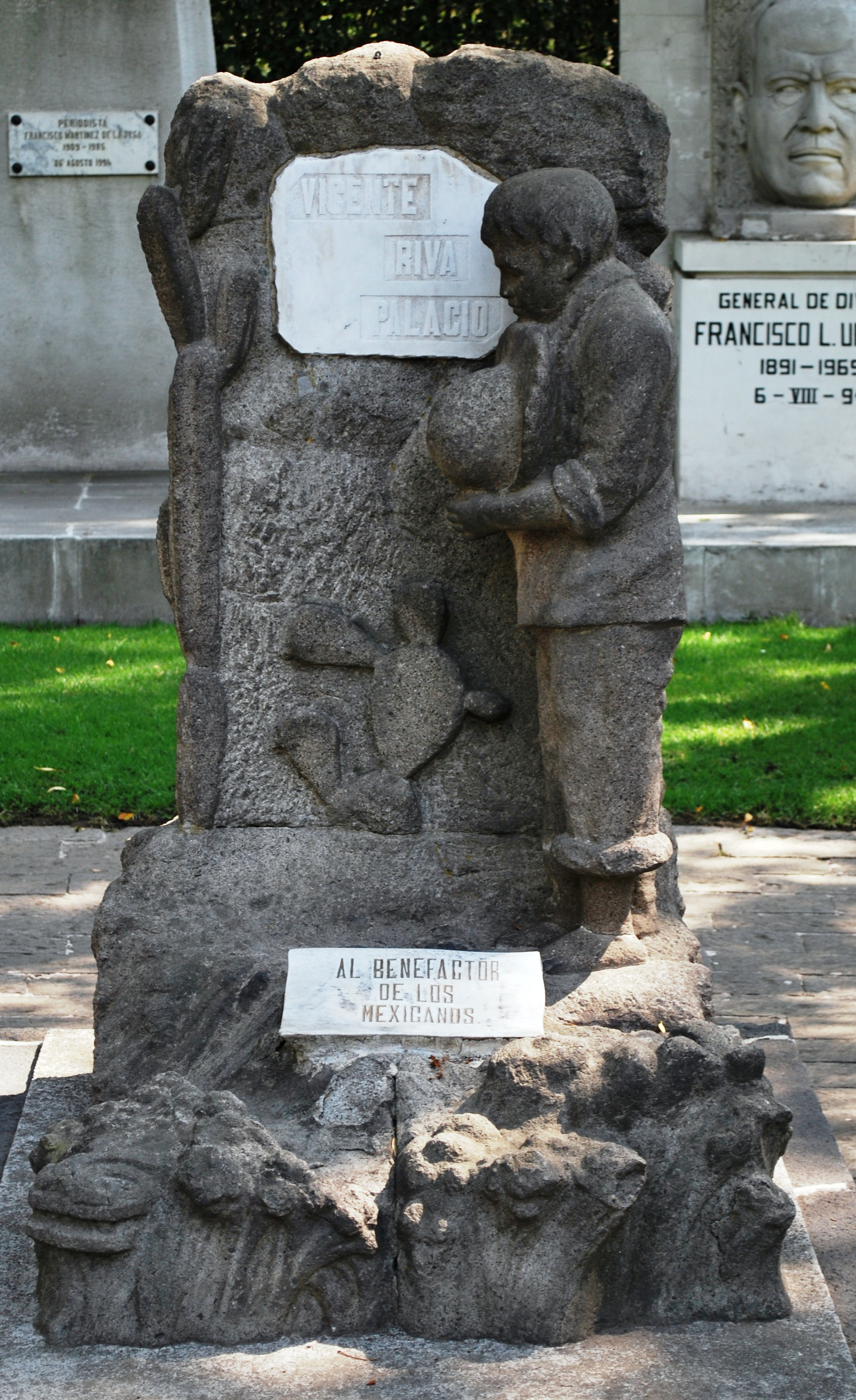 Tomb of Vicente Riva Palacio in the Panteon Civil de Dolores cemetery in Mexico City